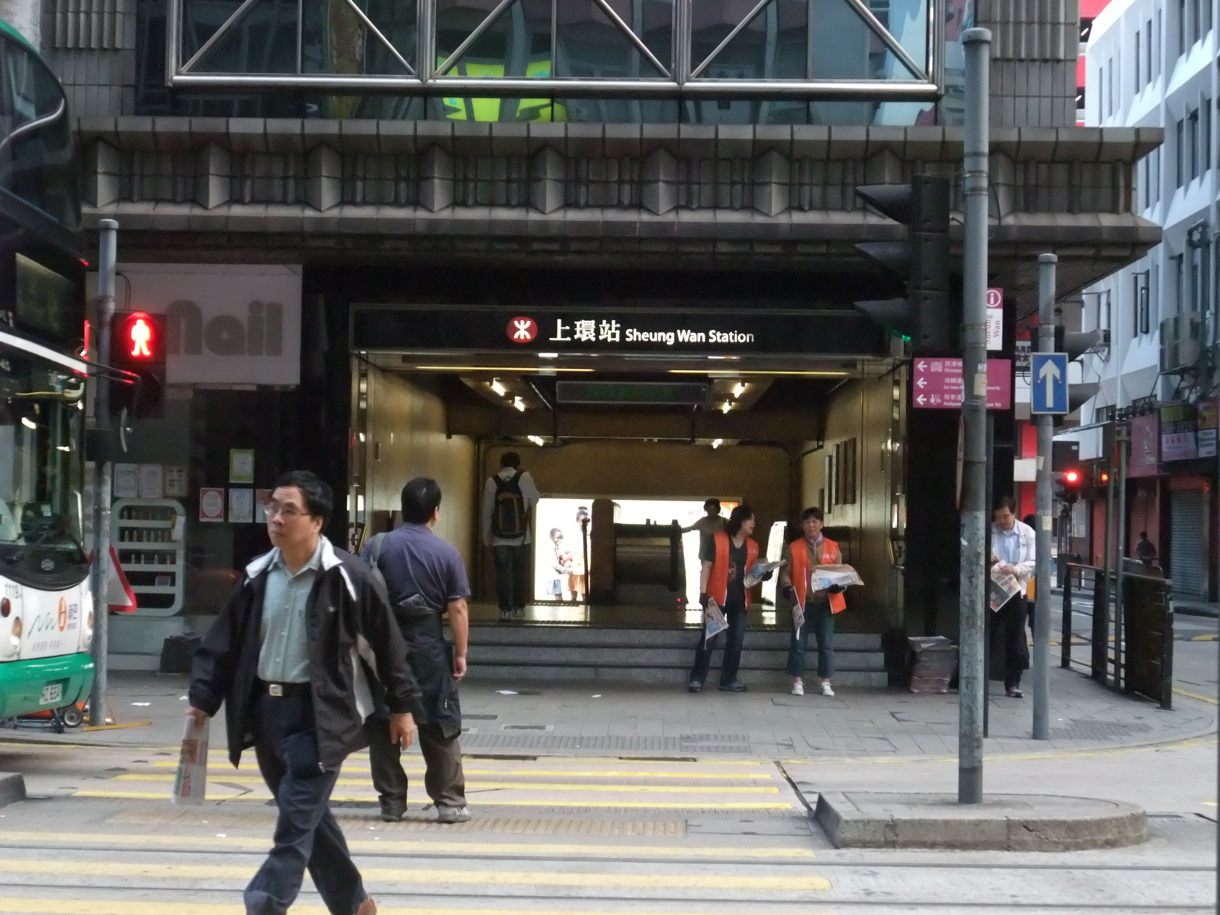 Photo of Sheung Wan Station Exit B